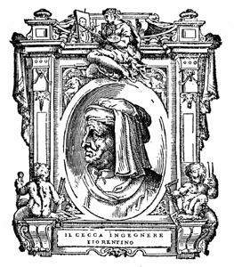 Illustratio from "Le Vite" by Giorgio Vasari, edition of 1568. For the artist portrayed see filename